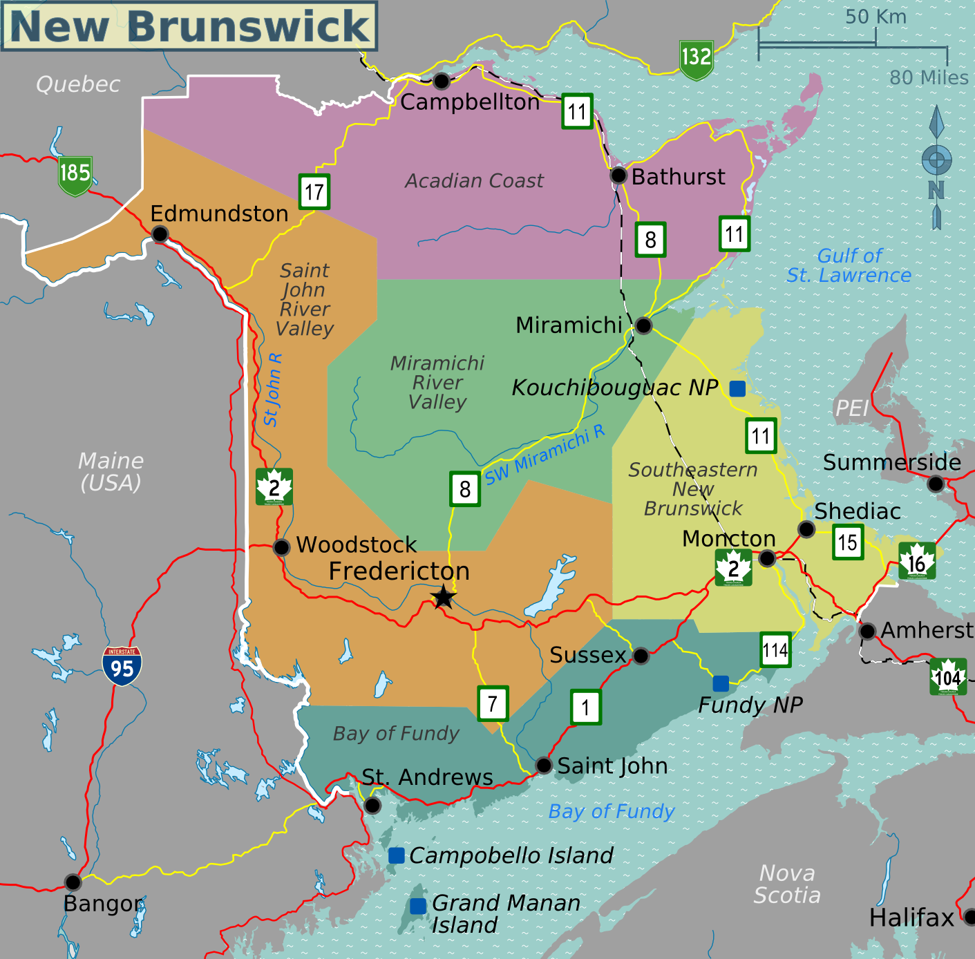 Map of New Brunswick for use on Wikivoyage, English version